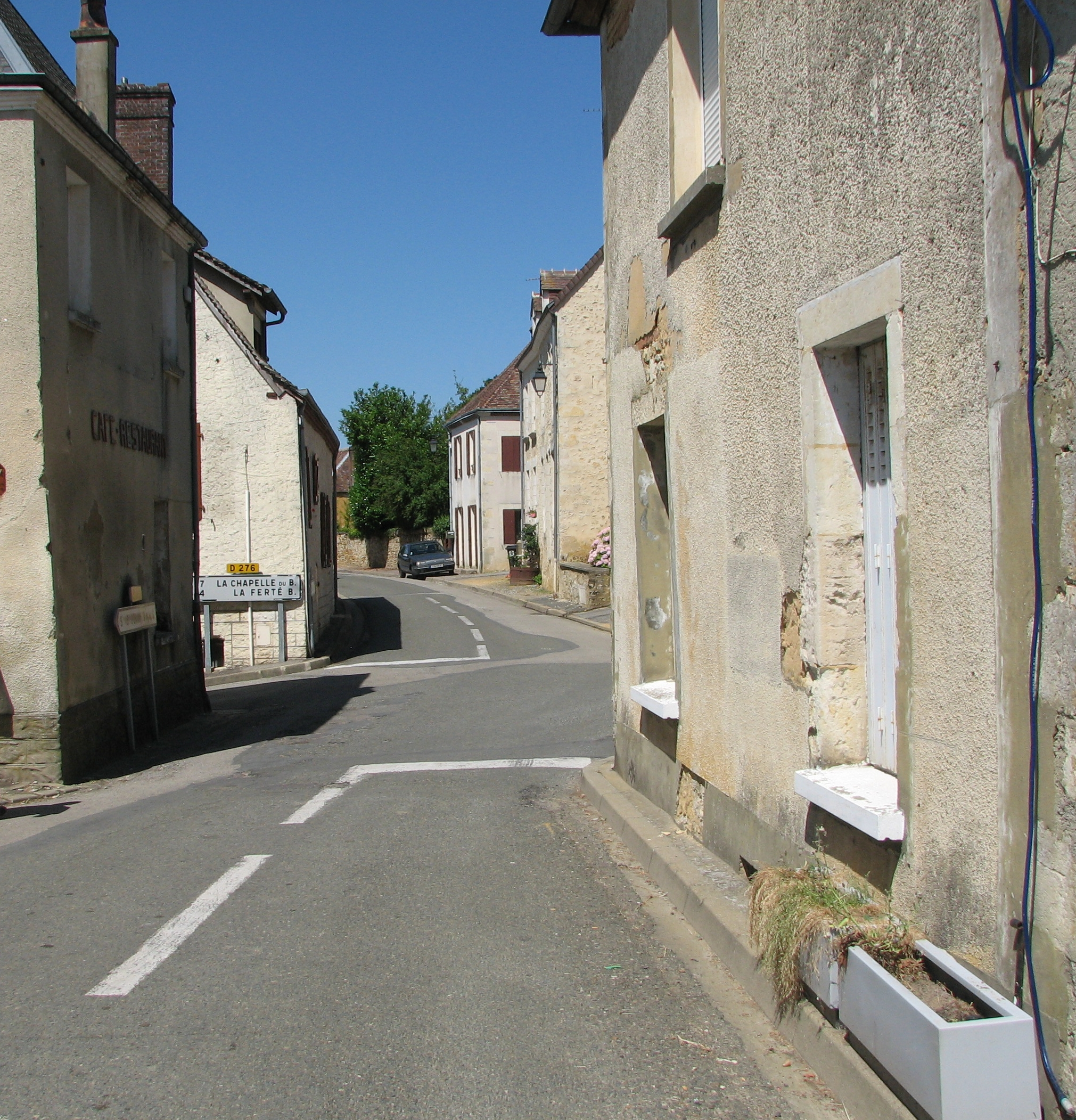 Street Scene in Bellou-le-Trichard